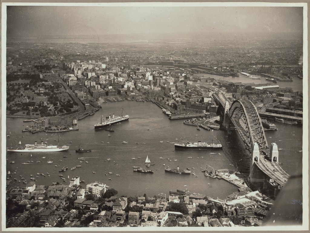 Searle, E. W. (Edward William) Part of the collection: Official air views of the opening celebrations of the Sydney Harbour Bridge, 19 March, 1932.; Title devised by cataloguer based on the caption below the photograph.; Also available in an electronic version via the Internet at: .au/nla.pic-vn3307665. Persistent URL .au/nla.pic-vn3307665